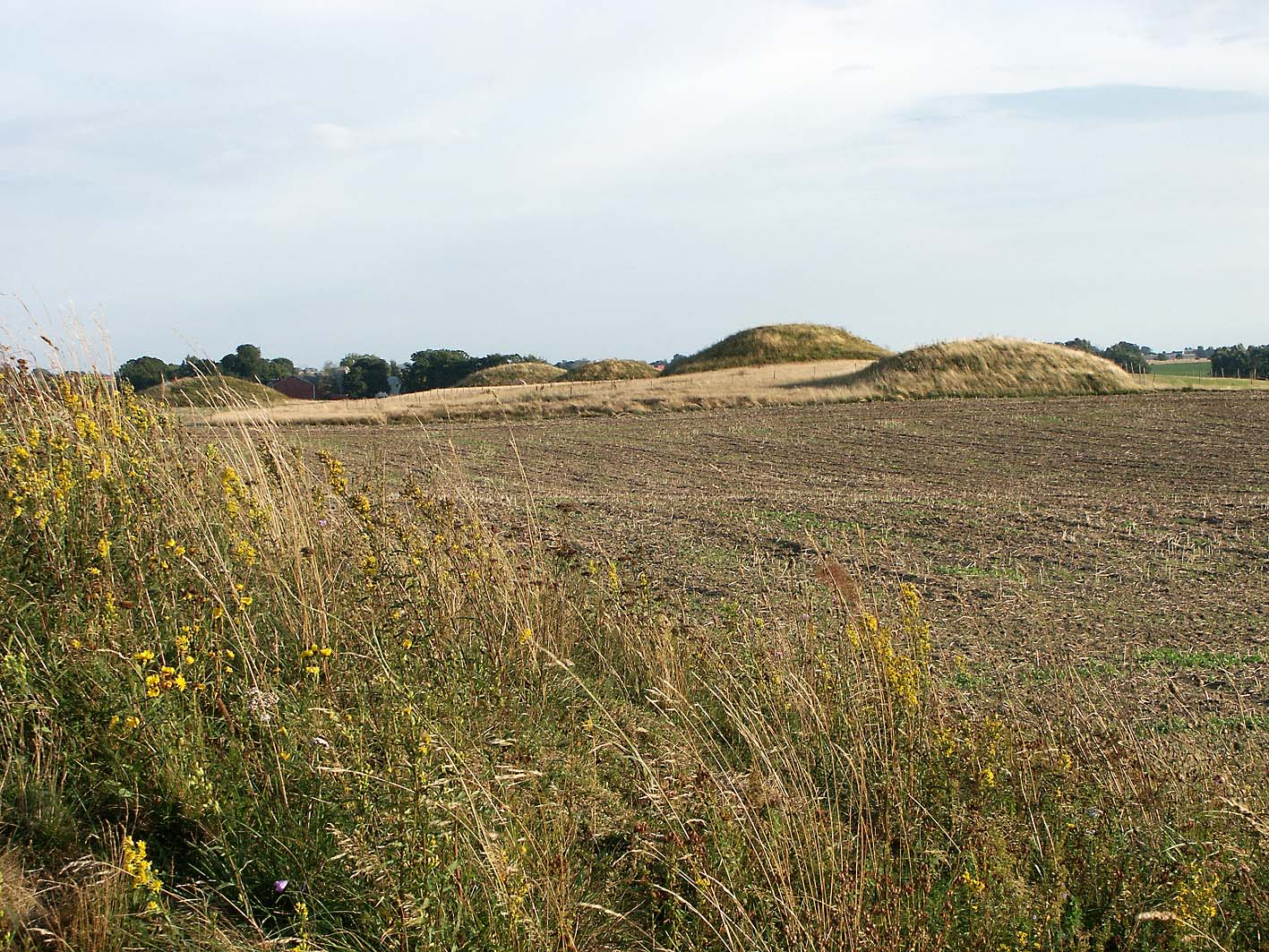 The gravefield of Steglarp in Skania, Sweden from about 1300 BC.